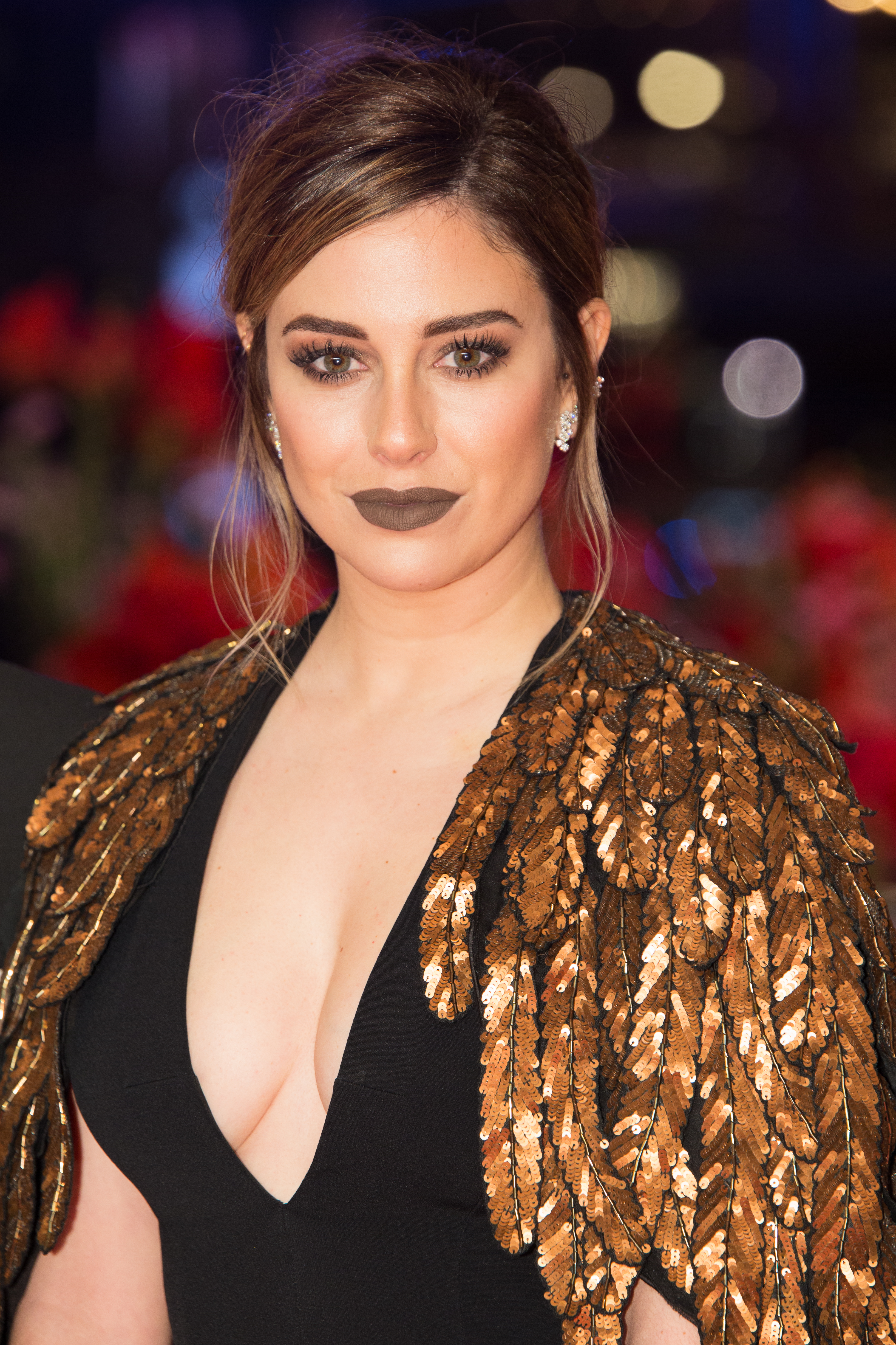 The actress Blanca Suárez on the red carpet at the opening night of the movie The Bar at the Berlinale 2017